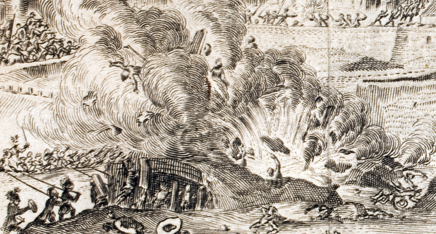 Detail from an 18th-century print of the siege and capture of Maastricht (1579).